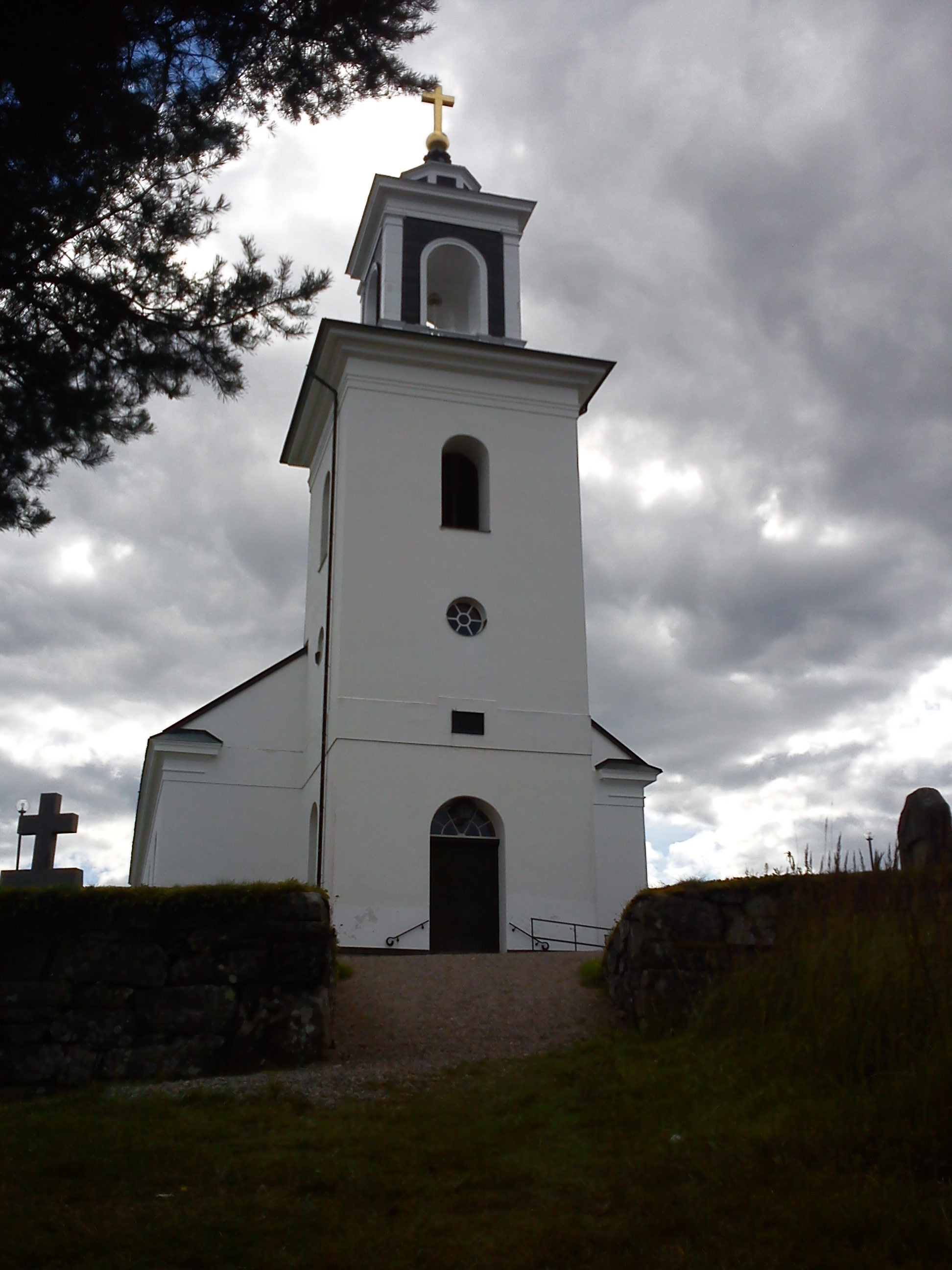 The Church of Vårvik, photographed from the north entrance.